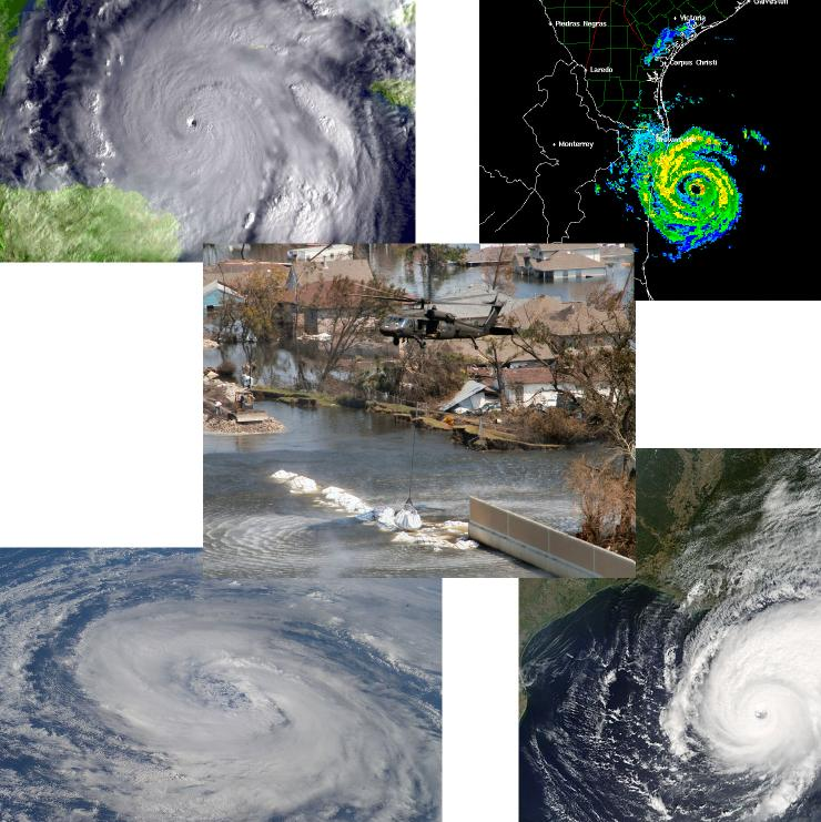 A collage of several storms during the 2005 Atlantic hurricane season: File:New Orleans USACE-Blackhawk-A-09-04-05 0072.jpg File:Epsilon ISS012-E-10097.jpg File:Wilma1315z-051019-1kg12.jpg File:Hurricane Emily on Brownsville NEXRAD at 0307 UTC.png File:Hurricane Rita 22 sept 2005 1655Z.jpg